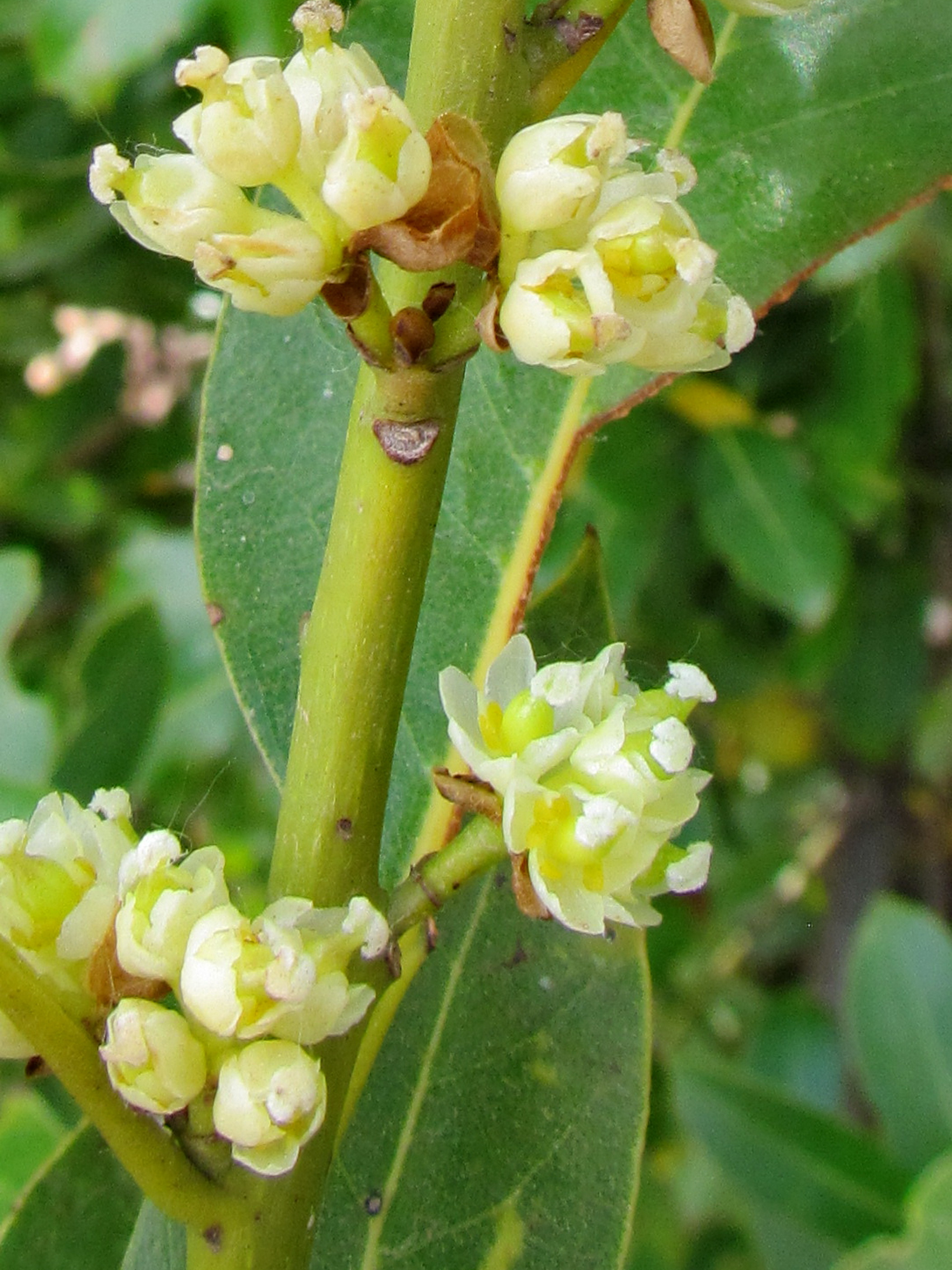 Laurus novocanariensis, flowers, Los Tilos, La Palma, Spain